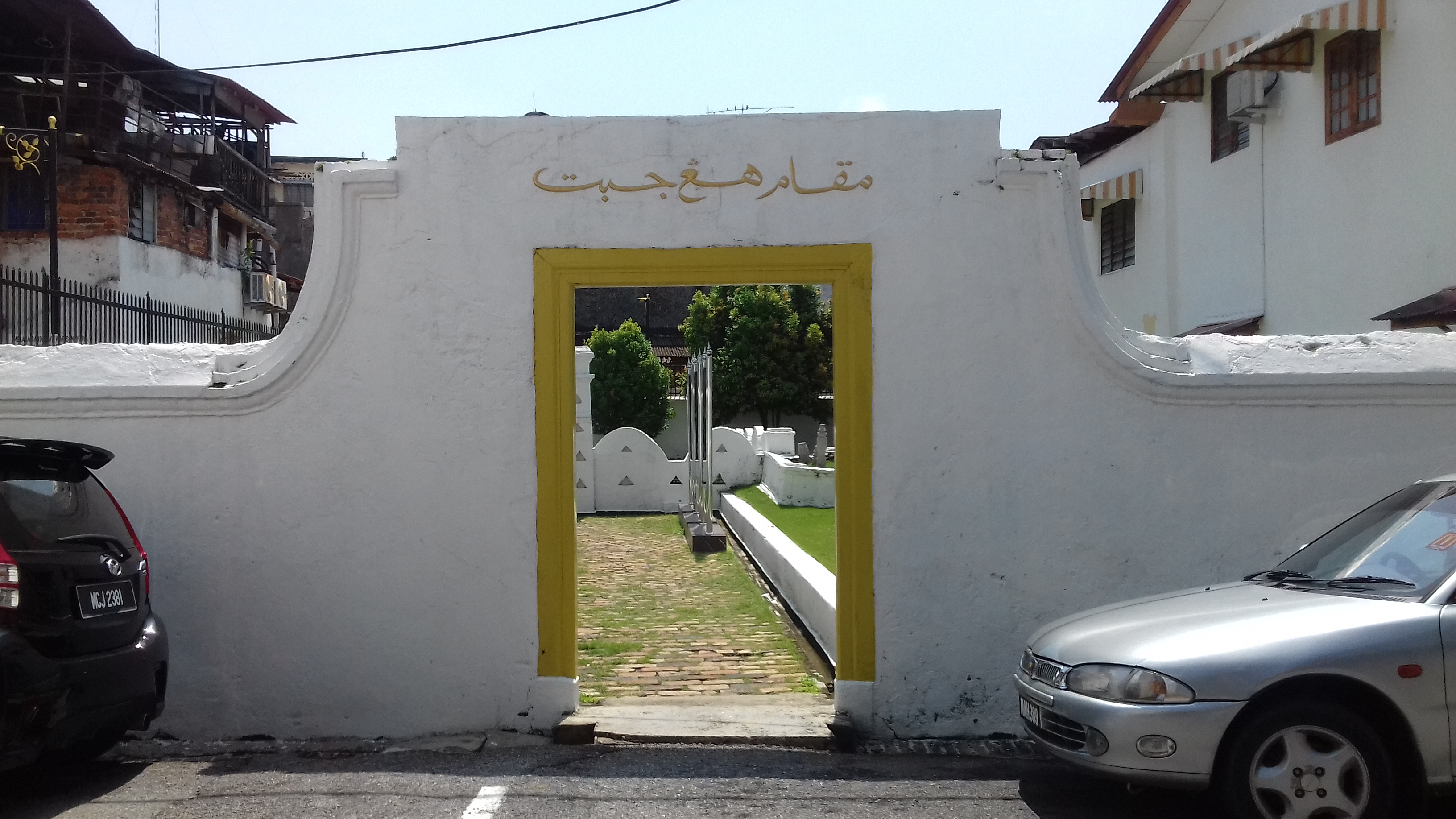 Hang Jebat Mausoleum, Malacca Town, Malacca, Malaysia